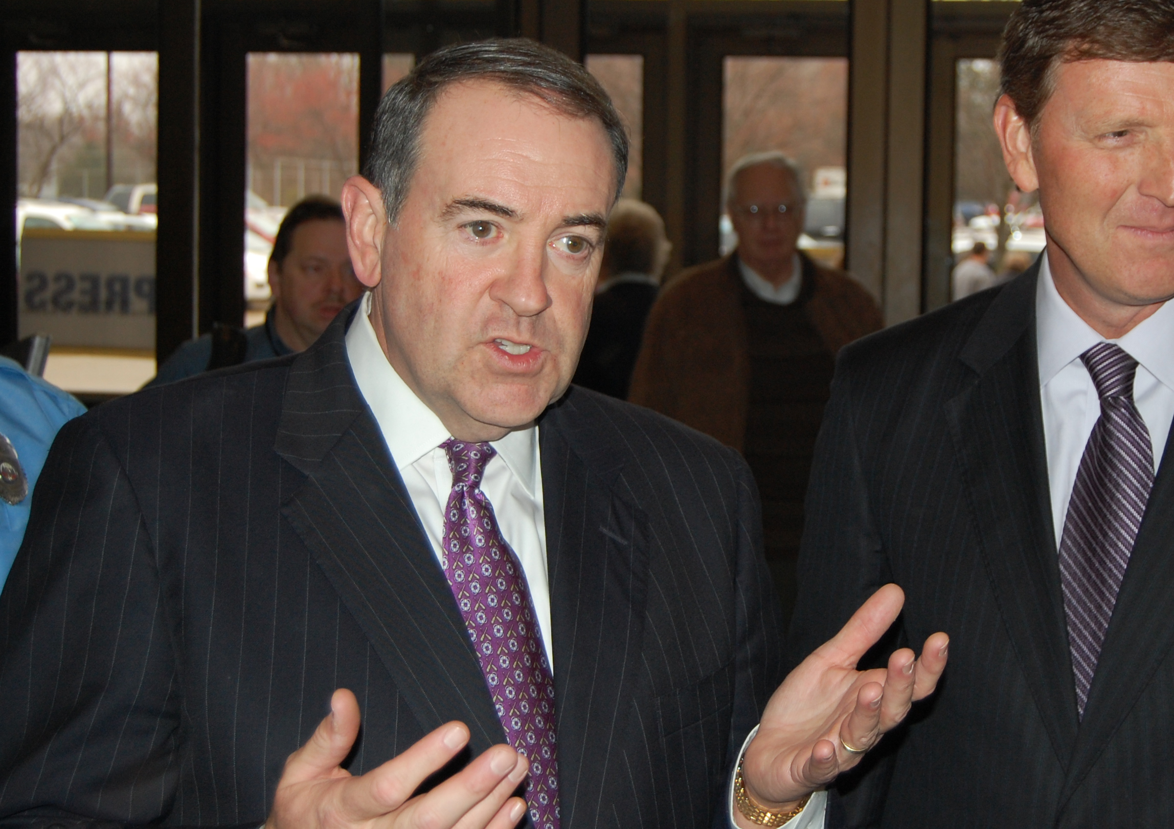 Former Arkansas Gov. Mike Huckabee and the Family Leader president/CEO Bob Vander Plaats speak during media availability.